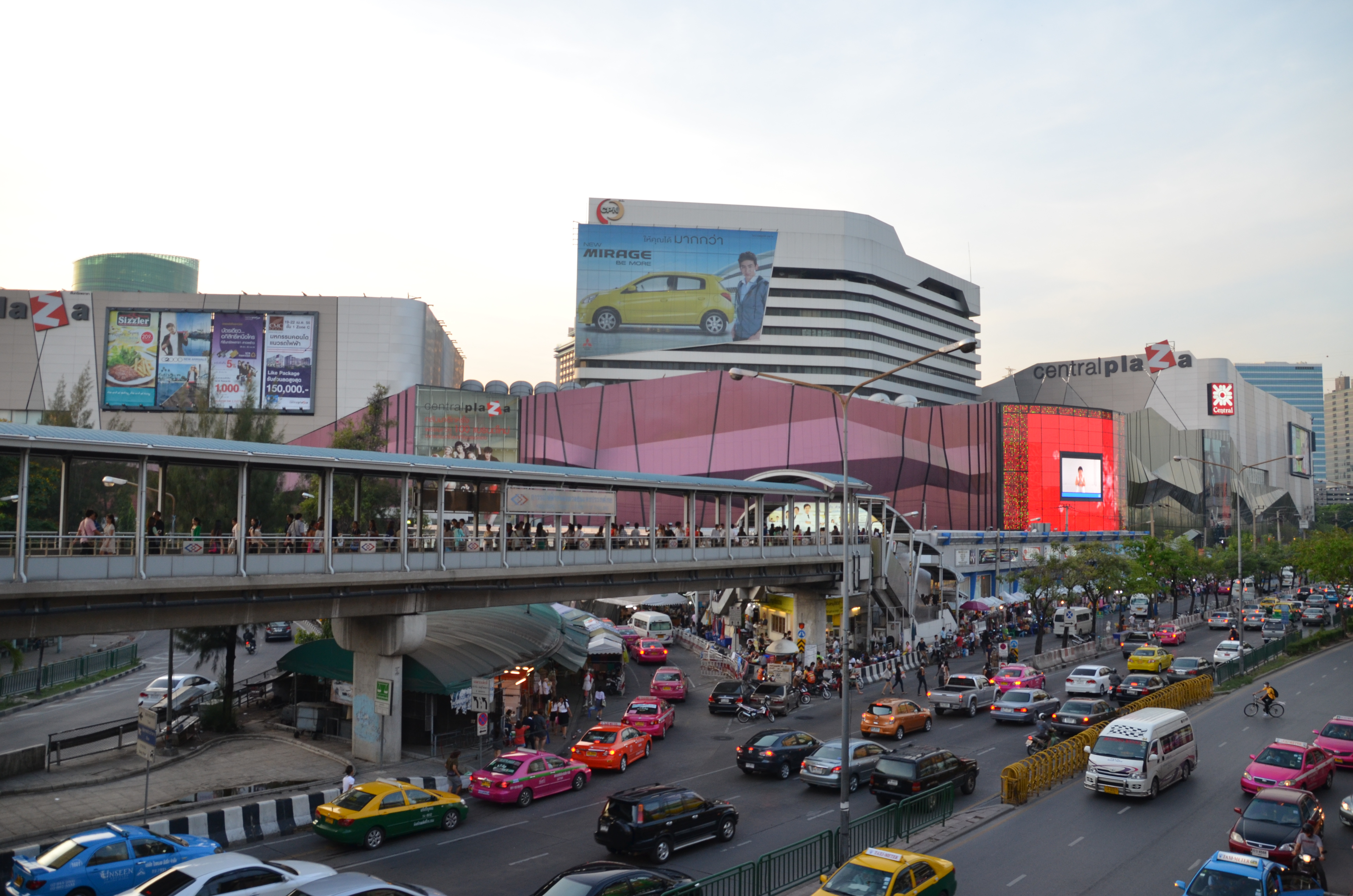 The newly renovated CentralPlaza Ladprao reopened on August 28, 2011.